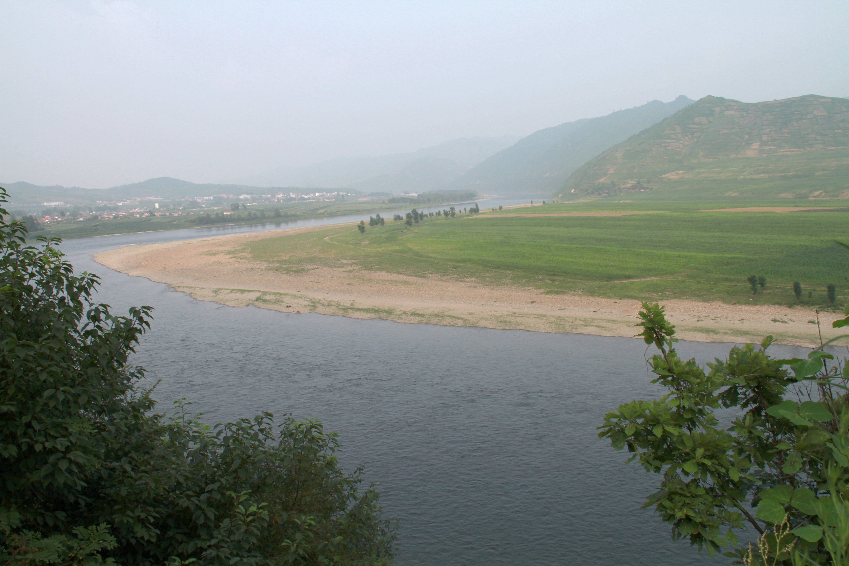 Photograph of the Yalu River seen from the Chinese side near Ji'an, Jilin Province, China.